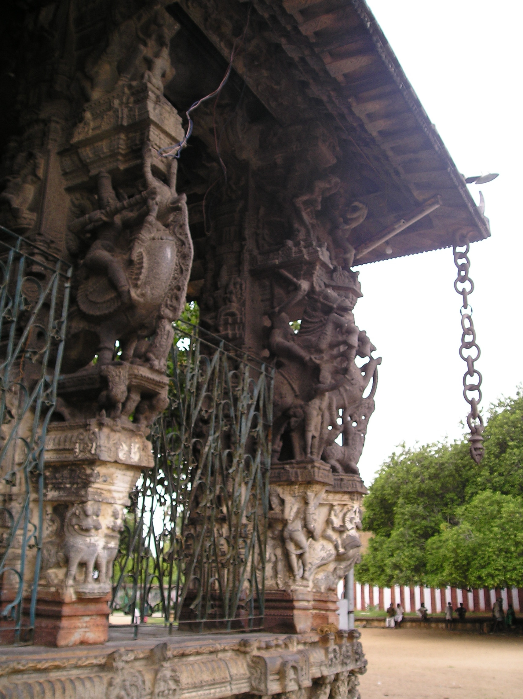 Varadaraja perumal Temple